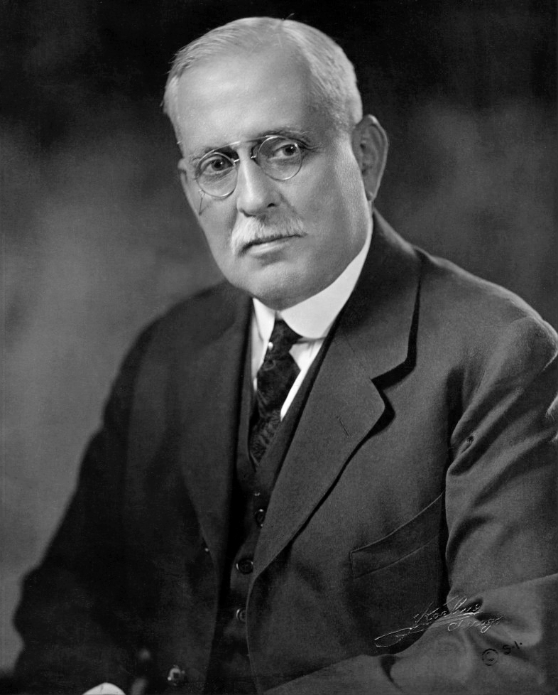 Portrait photograph of Samuel Insull